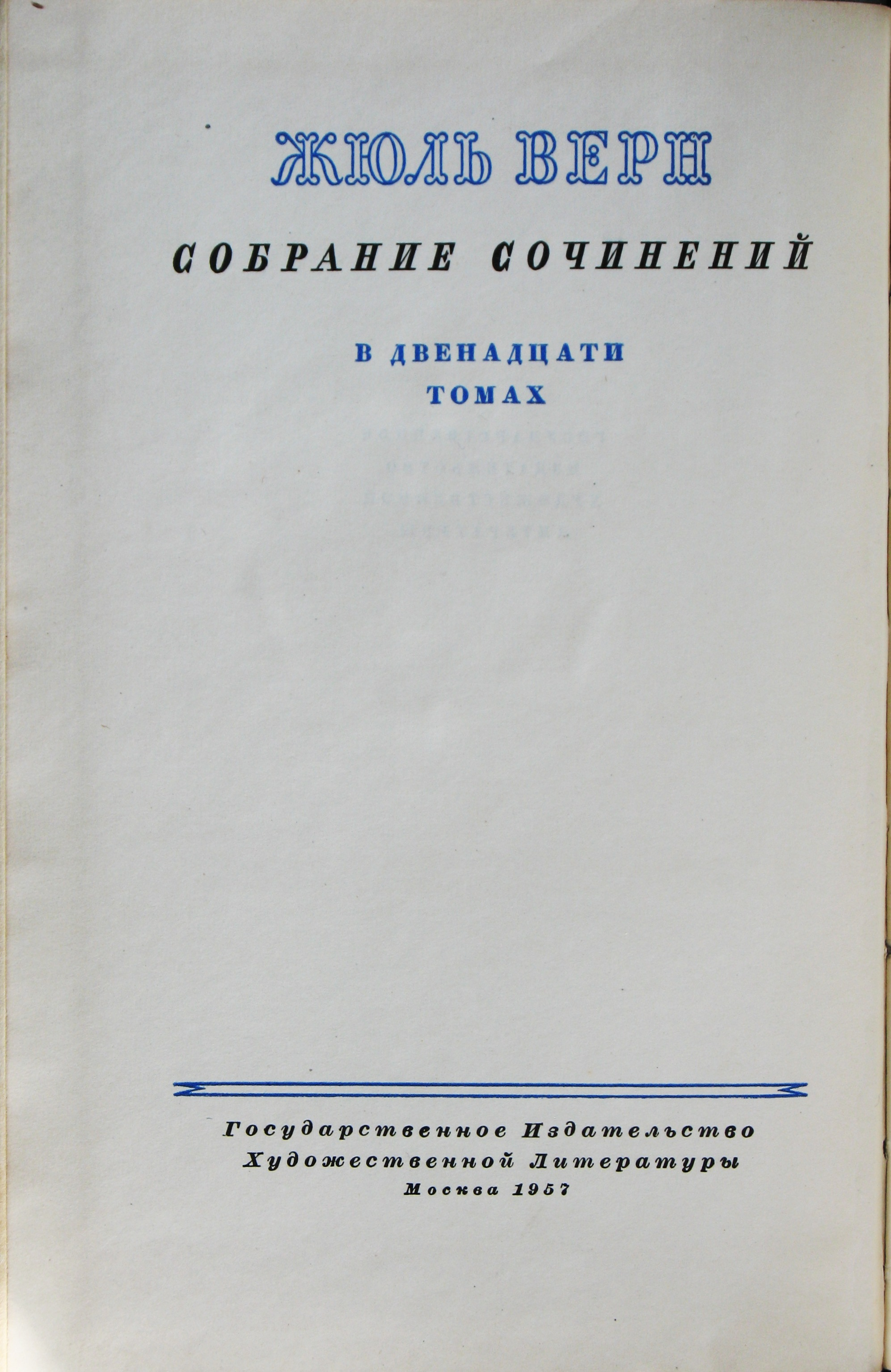 Jules Verne book, Moscow.